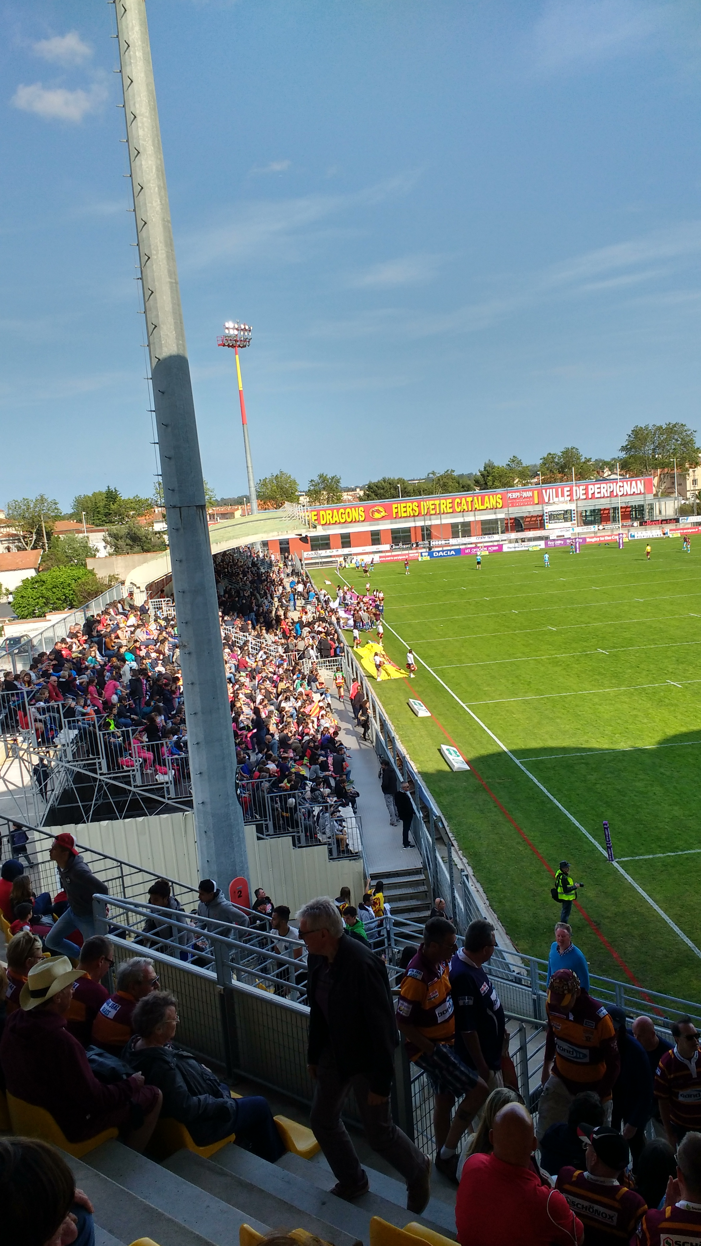 Stade Gilbert Brutus